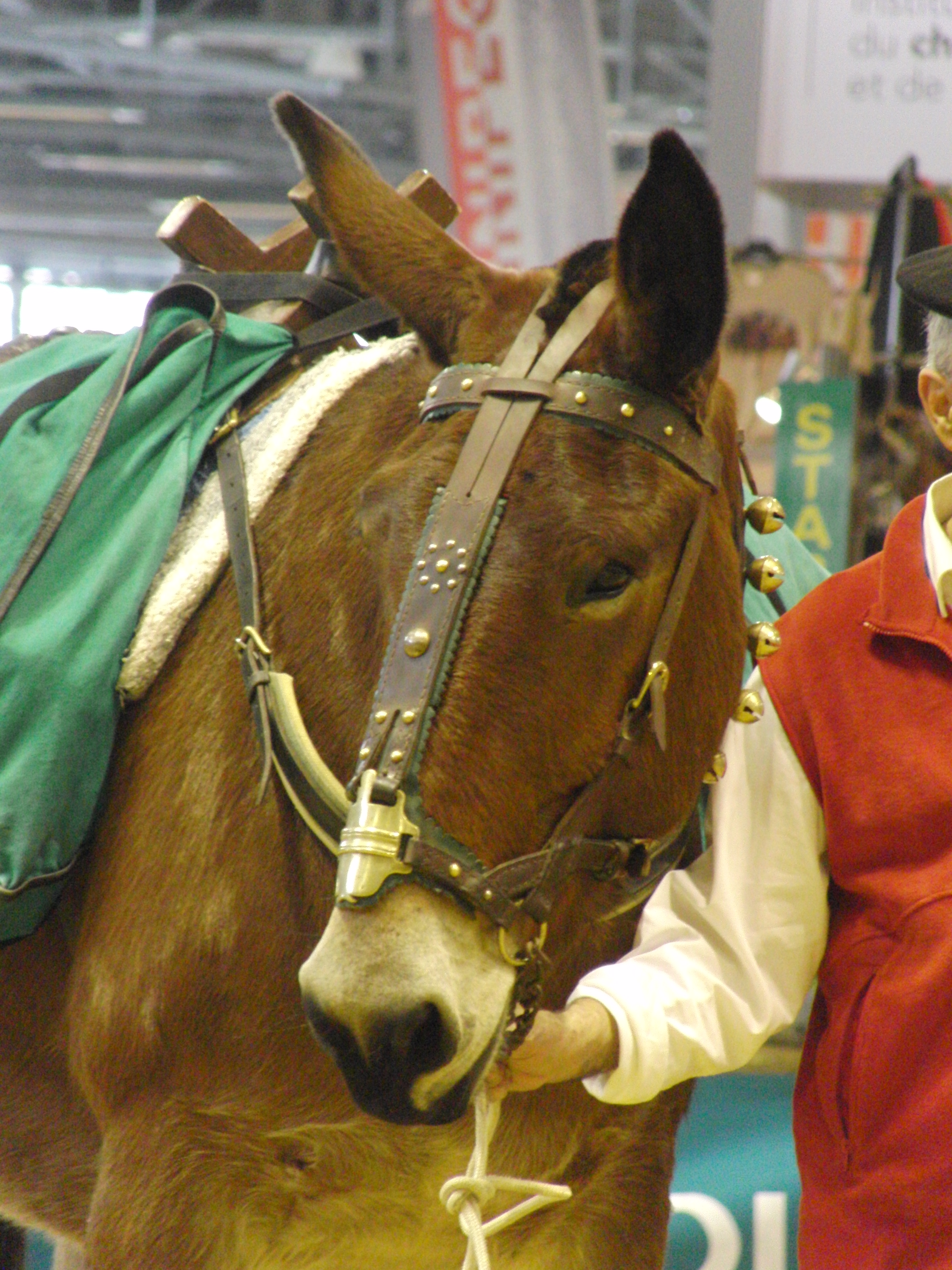 A Pyrenean mule's head at the 2014 International Agriculture Show in Paris, France